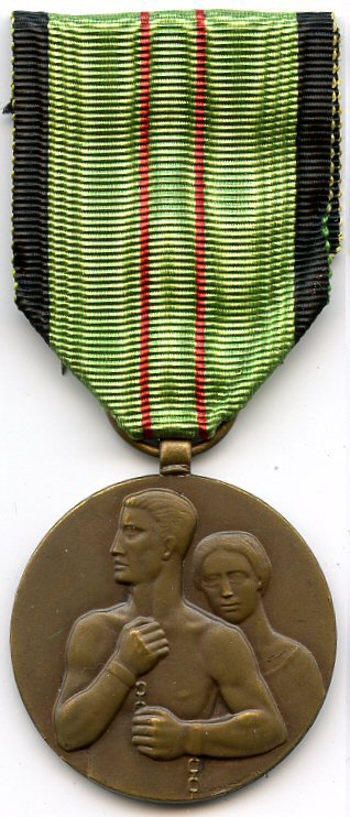 Medal for Civilian Resistance 1940-1945 (Belgium)